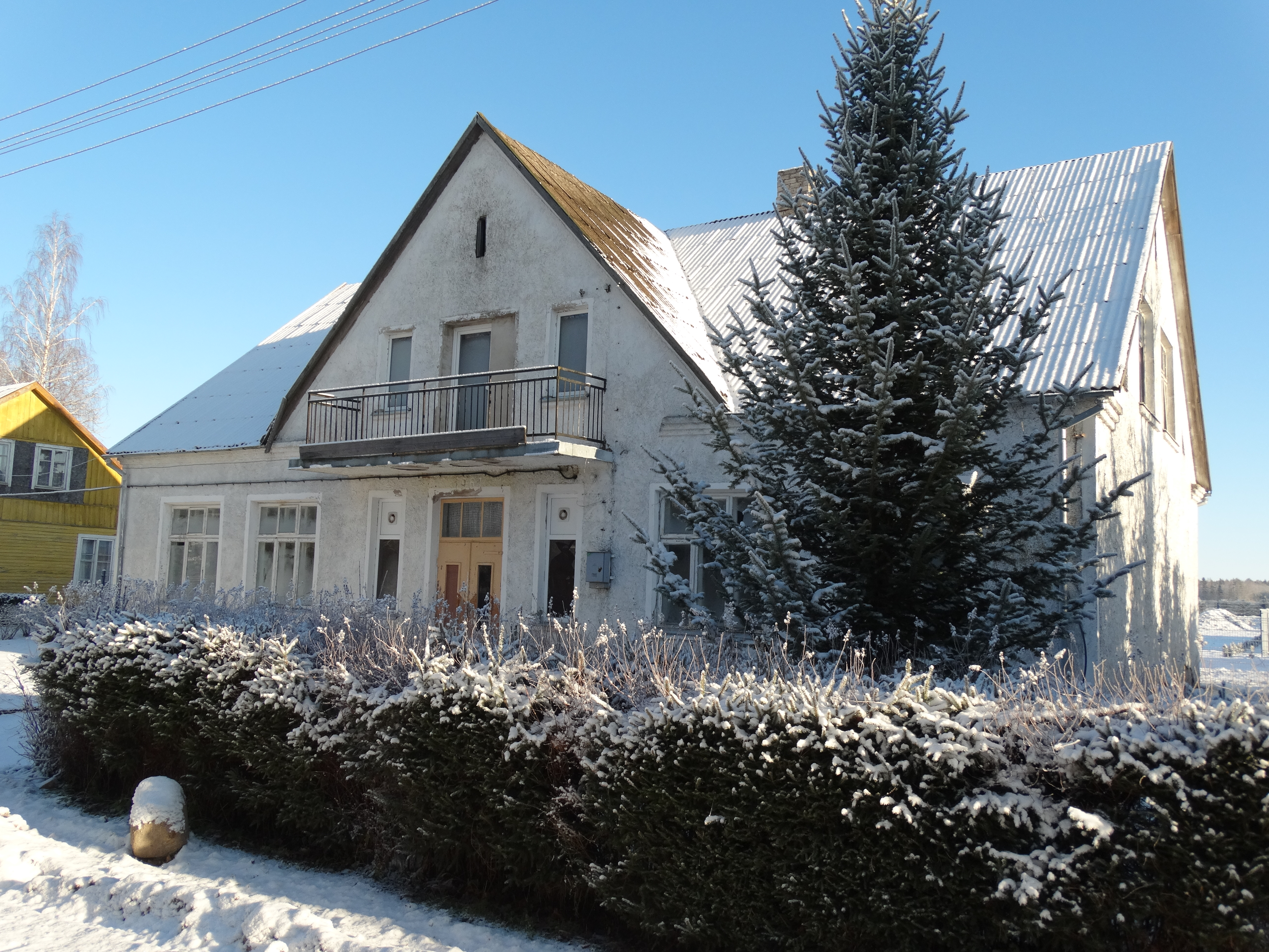 Former school, Vertimai, Jurbarkas district, Lithuania